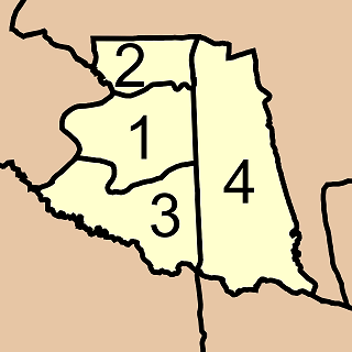 Map of Phra Phrom district, Nakhon Si Thammarat province, Thailand, with the communes (tambon) numbered. Na Phru (นาพรุ) Na San (นาสาร) Thai Samphao (ท้ายสำเภา) Chang Sai (ช้างซ้าย)